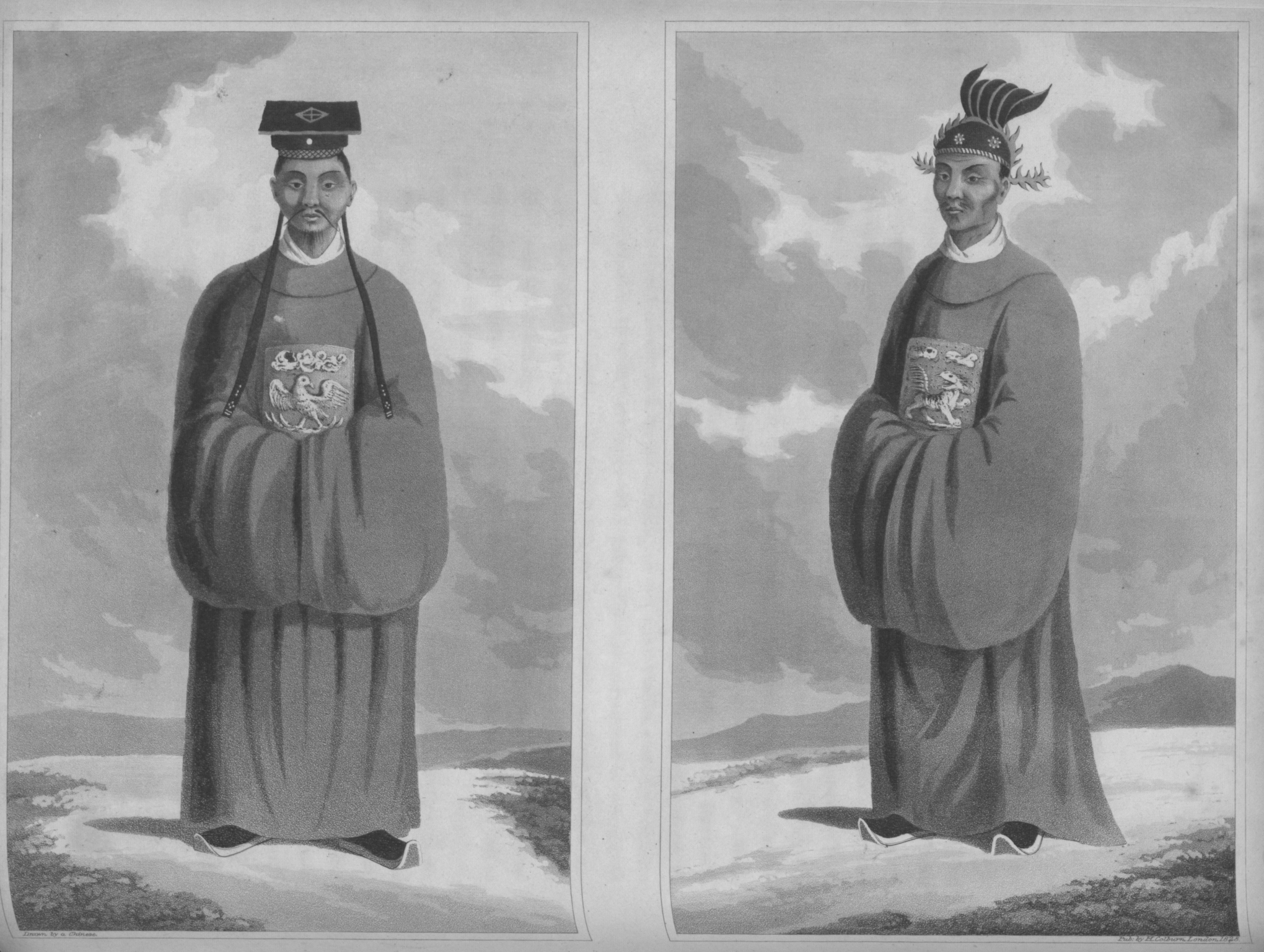 Mandarins in Nguyen Dynasty (about 1820). The left is Literature Mandarin, the right is Military Mandarin, described as "The Mandarins wore a cap of a peculiar form, and on a square piece of silk, on the breast of their gown, was embroi- dered the badge of their order. That of the military chief was a boar, and of the man of letters a stork."